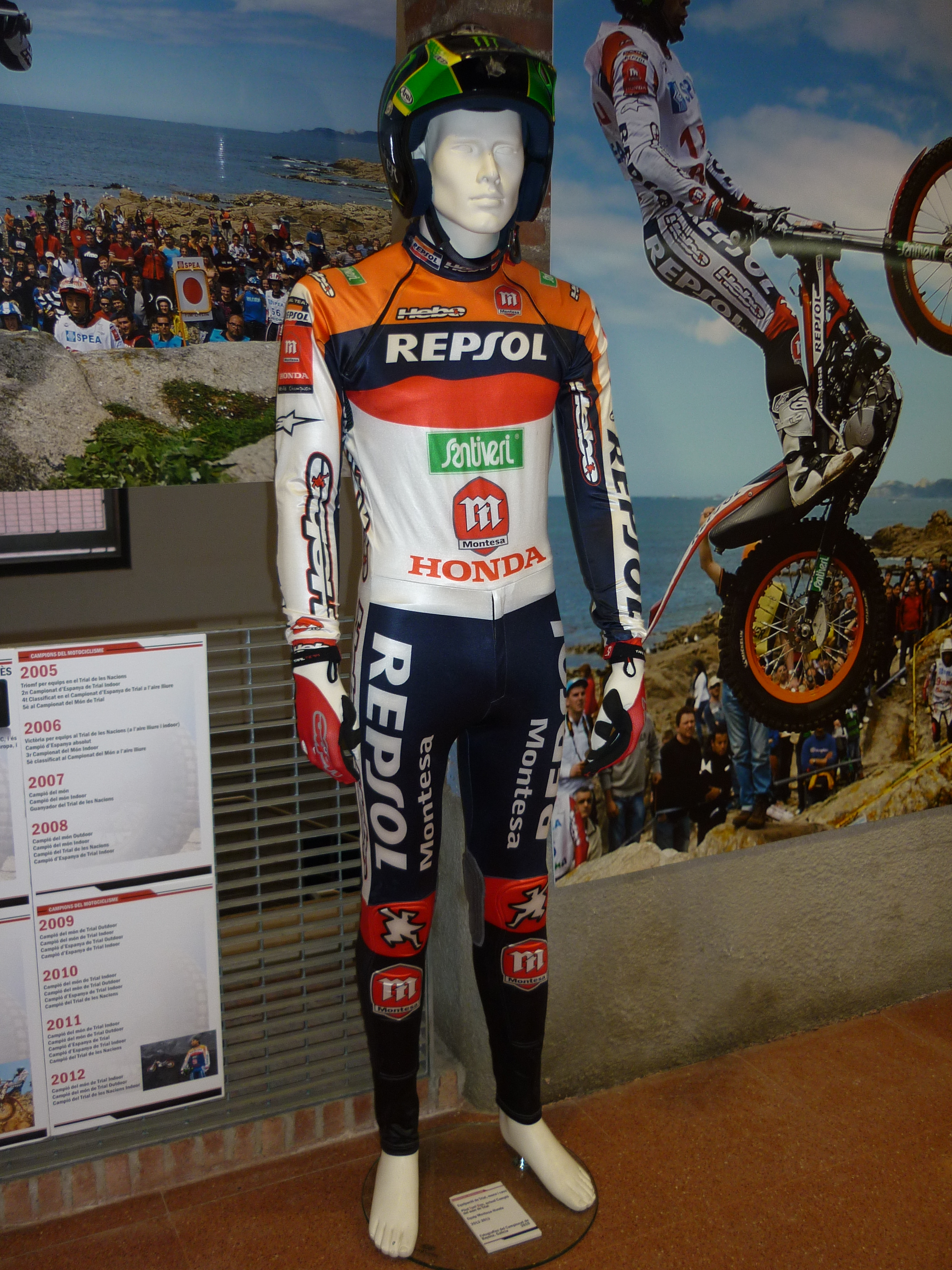 The equipment that wore Toni Bou during 2012 season